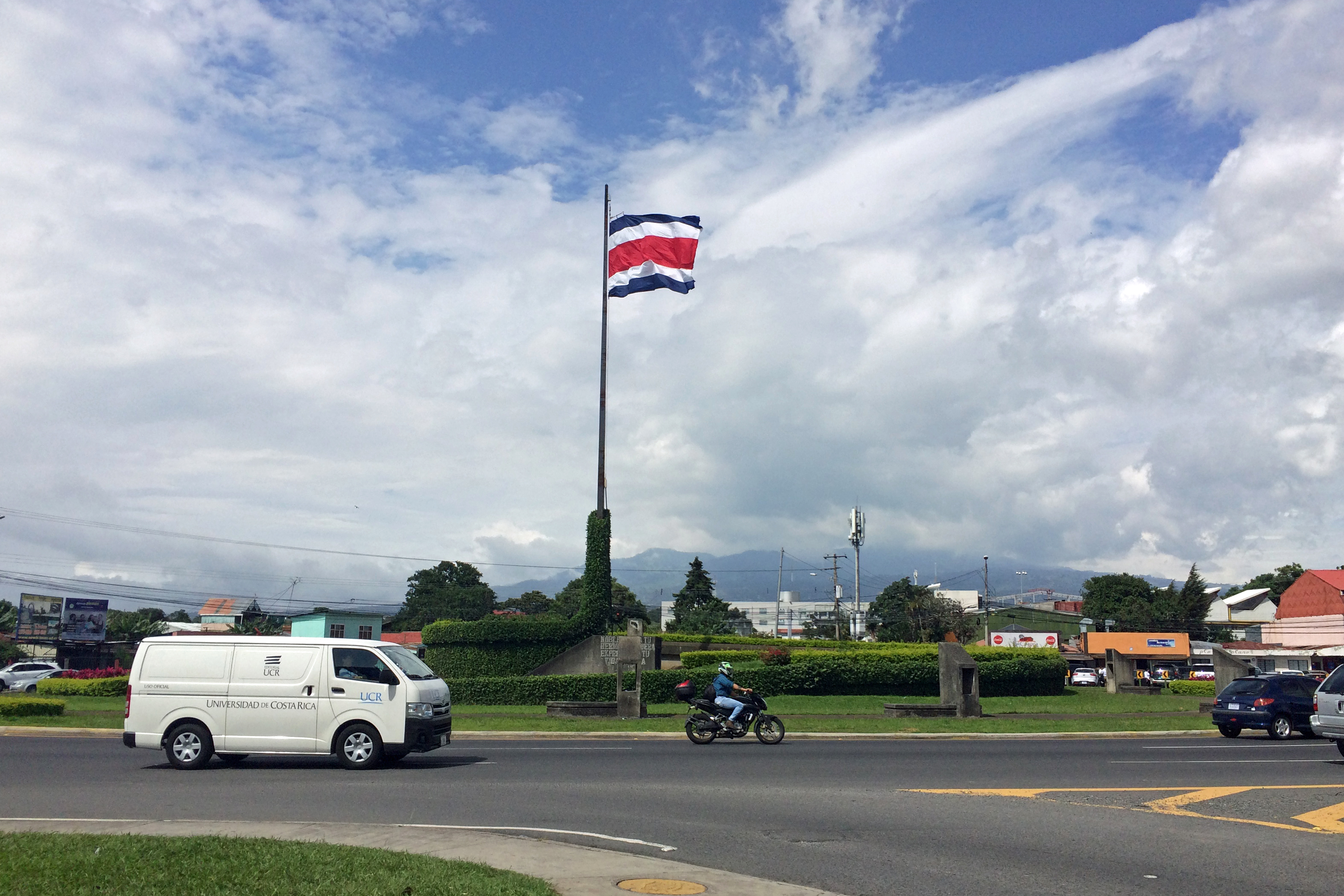 La Bandera ("The Flag") rondabout in San Pedro, San José, Costa Rica.